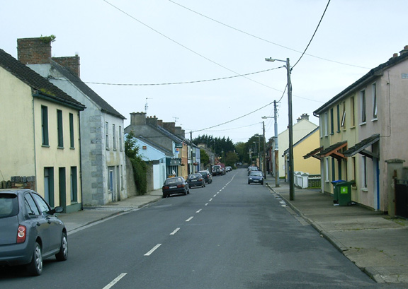 Pallaskenry